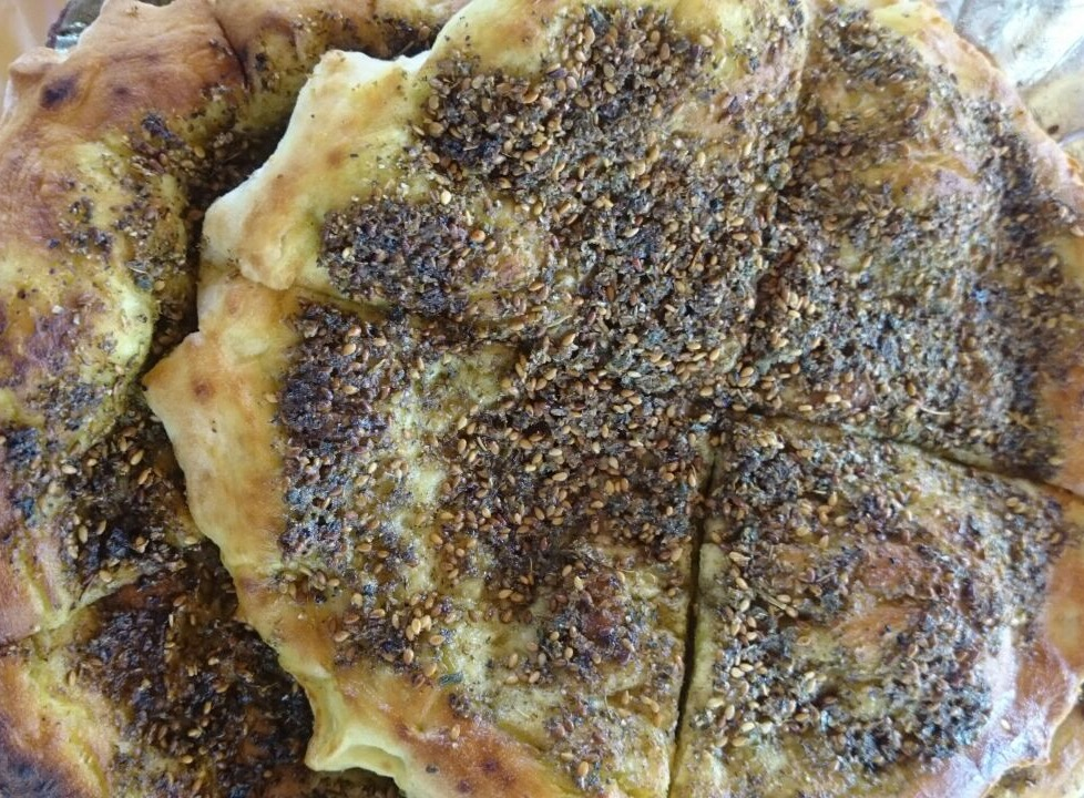 Thyme manaqish